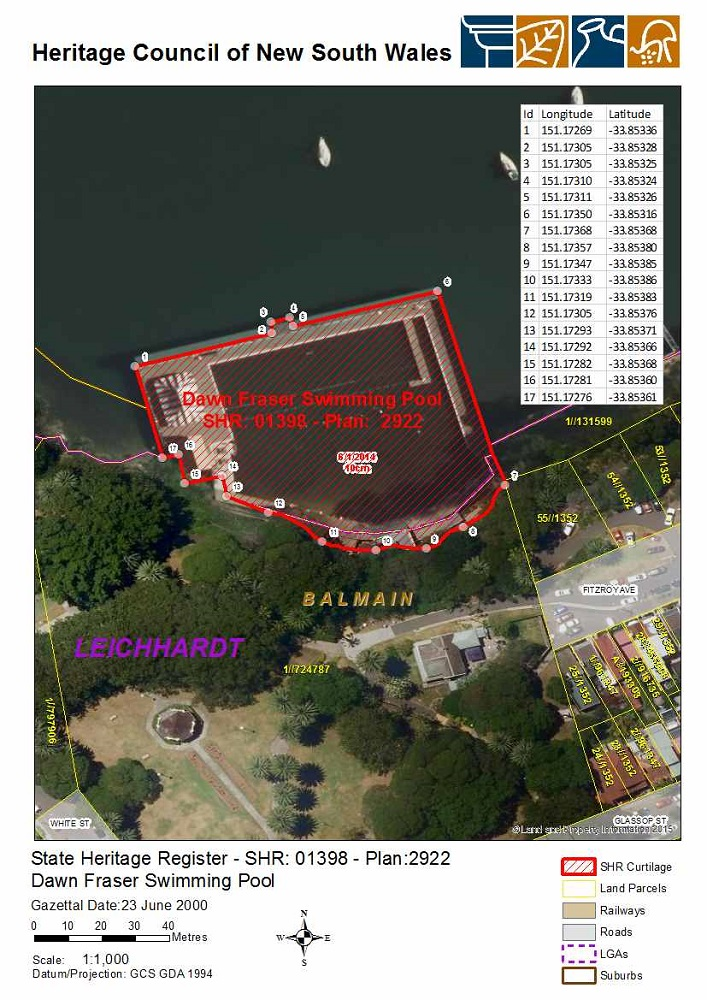 Dawn Fraser Swimming Pool: SHR Plan No 2922